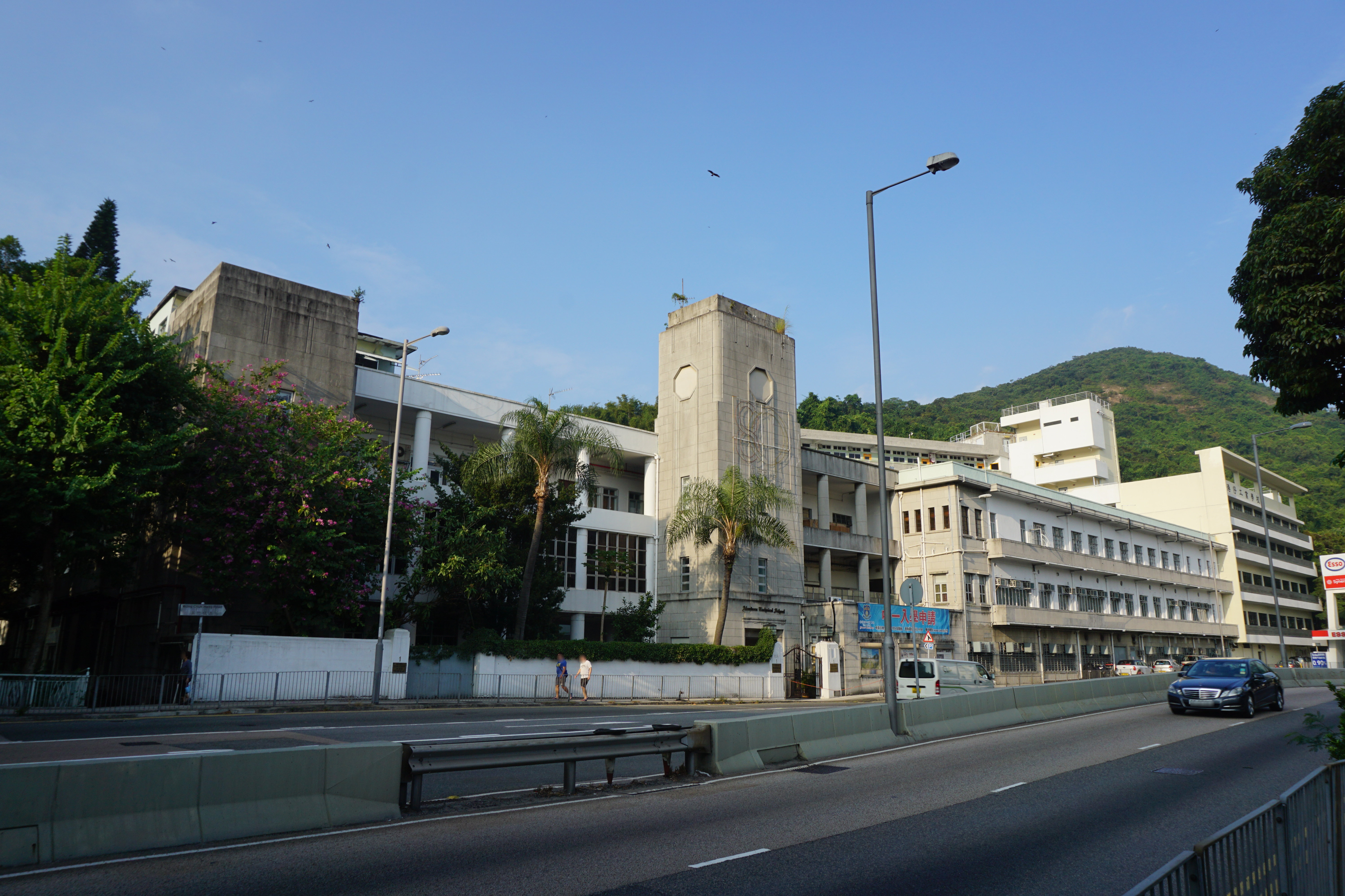 Technical School in Aberdeen, Hong Kong.